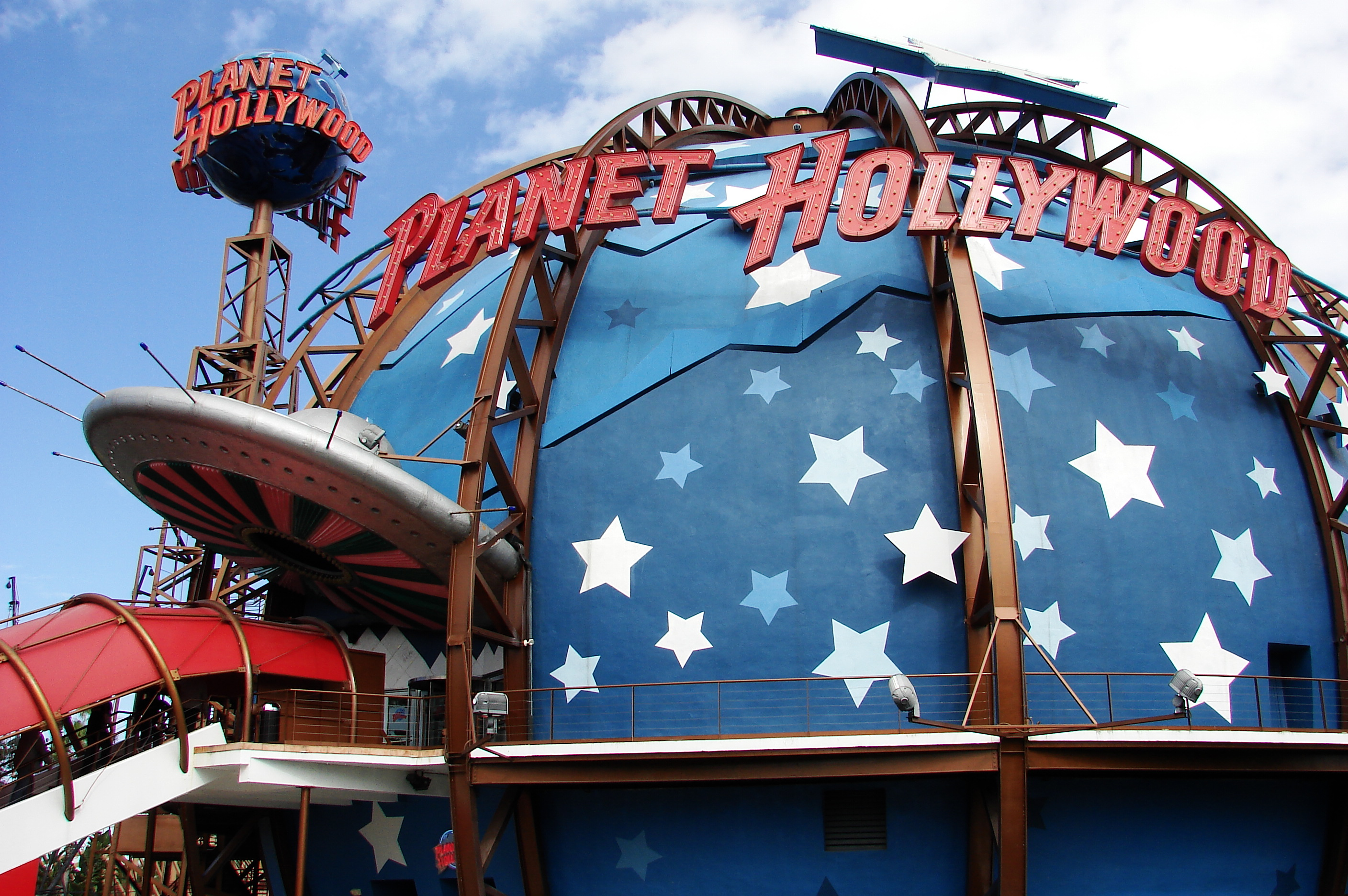 Planet Hollywood restaurant at Downtown Disney in Orlando, Florida.